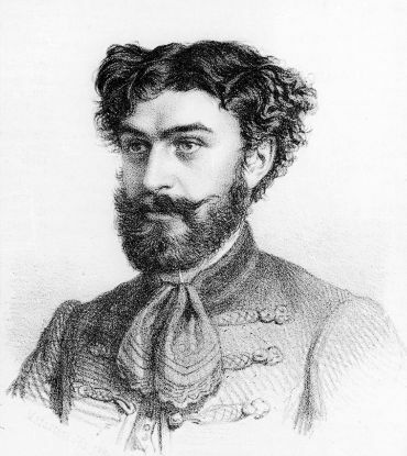 Kálmán Thaly, (1839–1909) historian, honorary member of the Hungarian Academy of Sciences, legislator